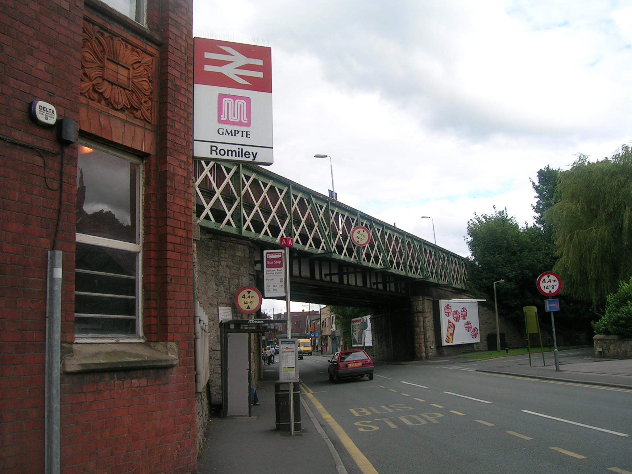 Romiley railway station